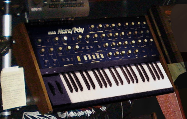 KORG MONO/POLY clipped from Shawn Rudiman's Studio, Pittsburgh, PA